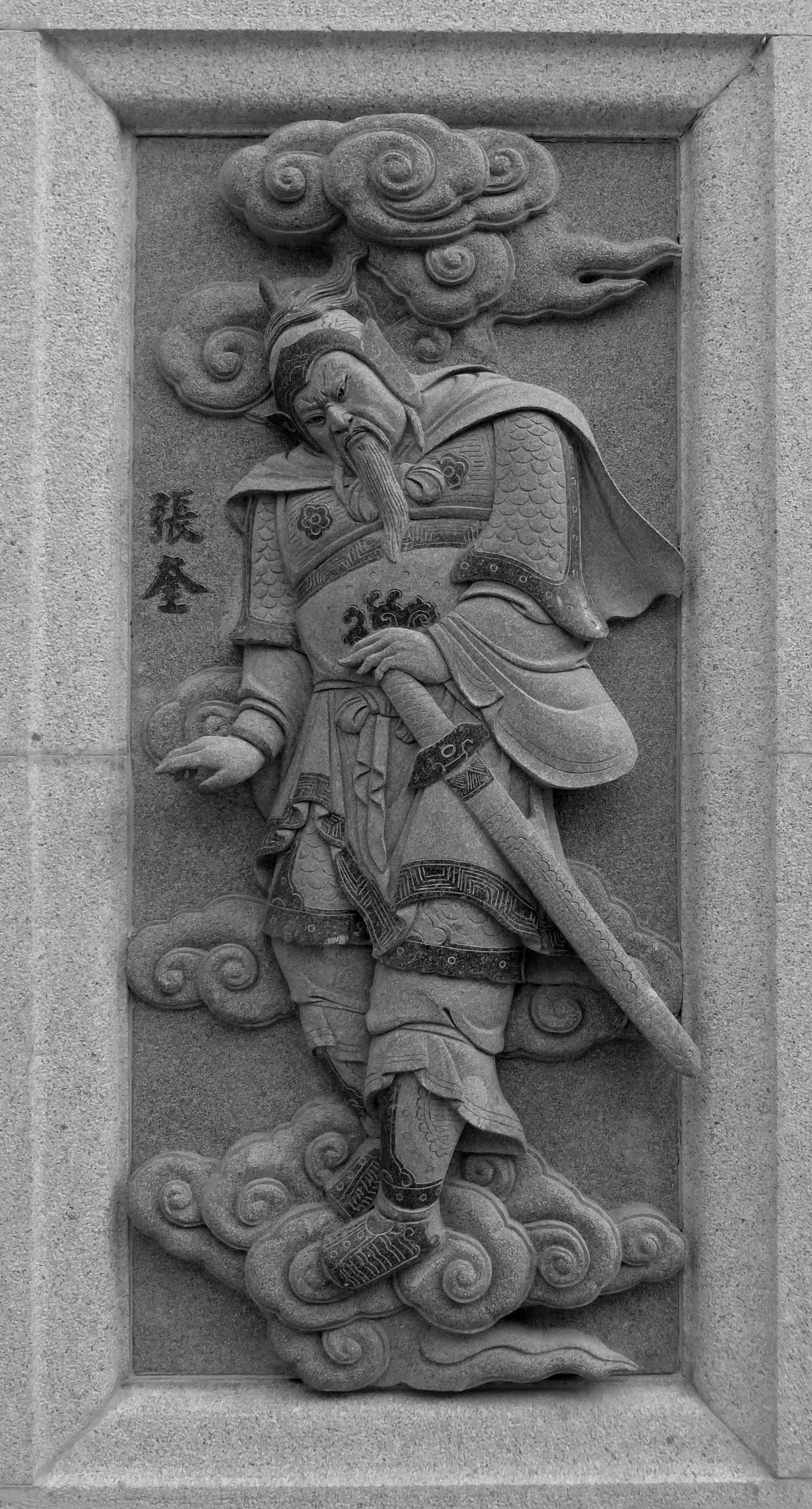 104 Zhang Kui, Investiture of the Gods at Ping Sien Si, Pasir Panjang, Perak, Malaysia Photograph from the Ping Sien Si Temple in Perak, Malaysia taken by Anandajoti.